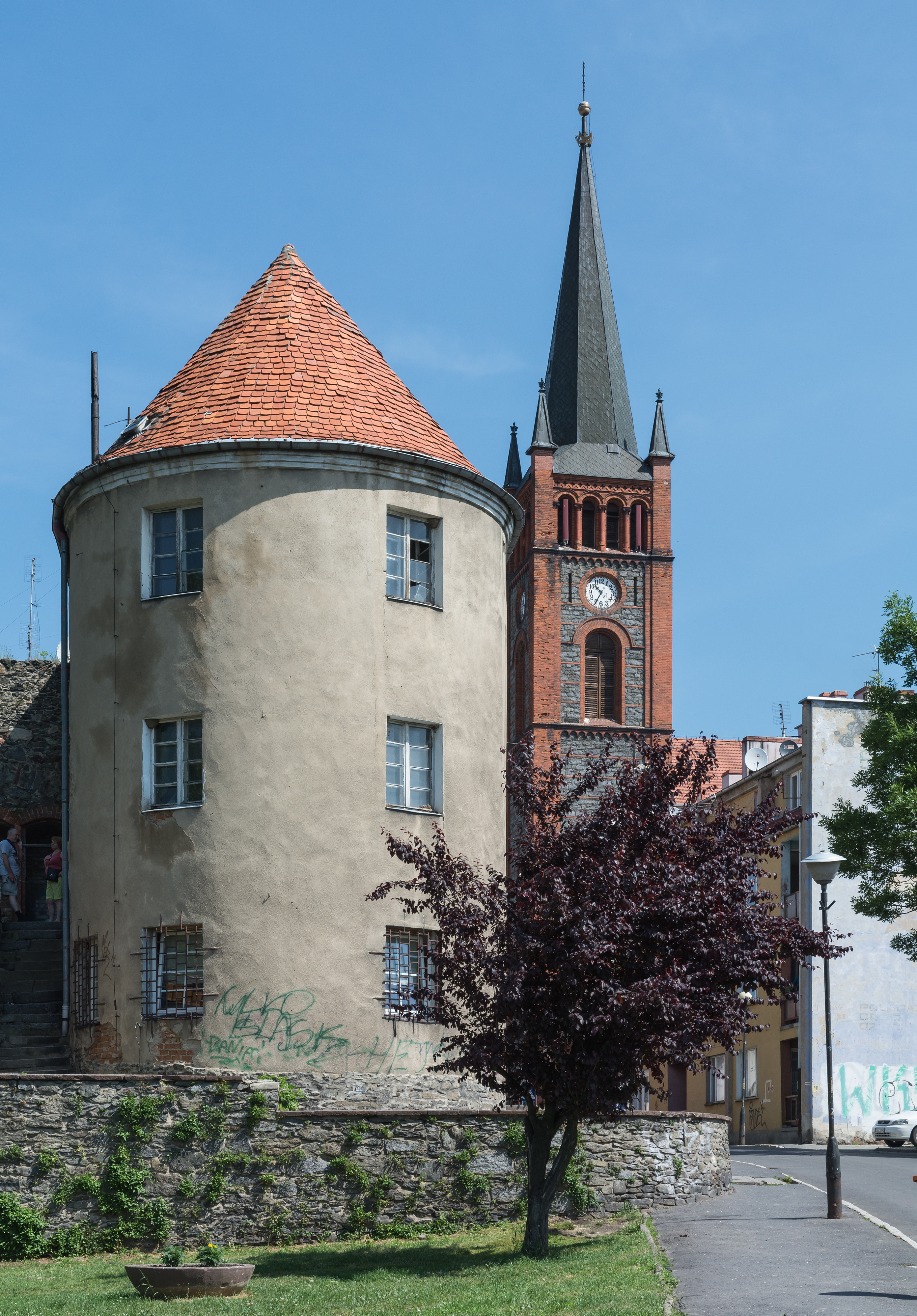 Tower of the Upper Gate in Niemcza